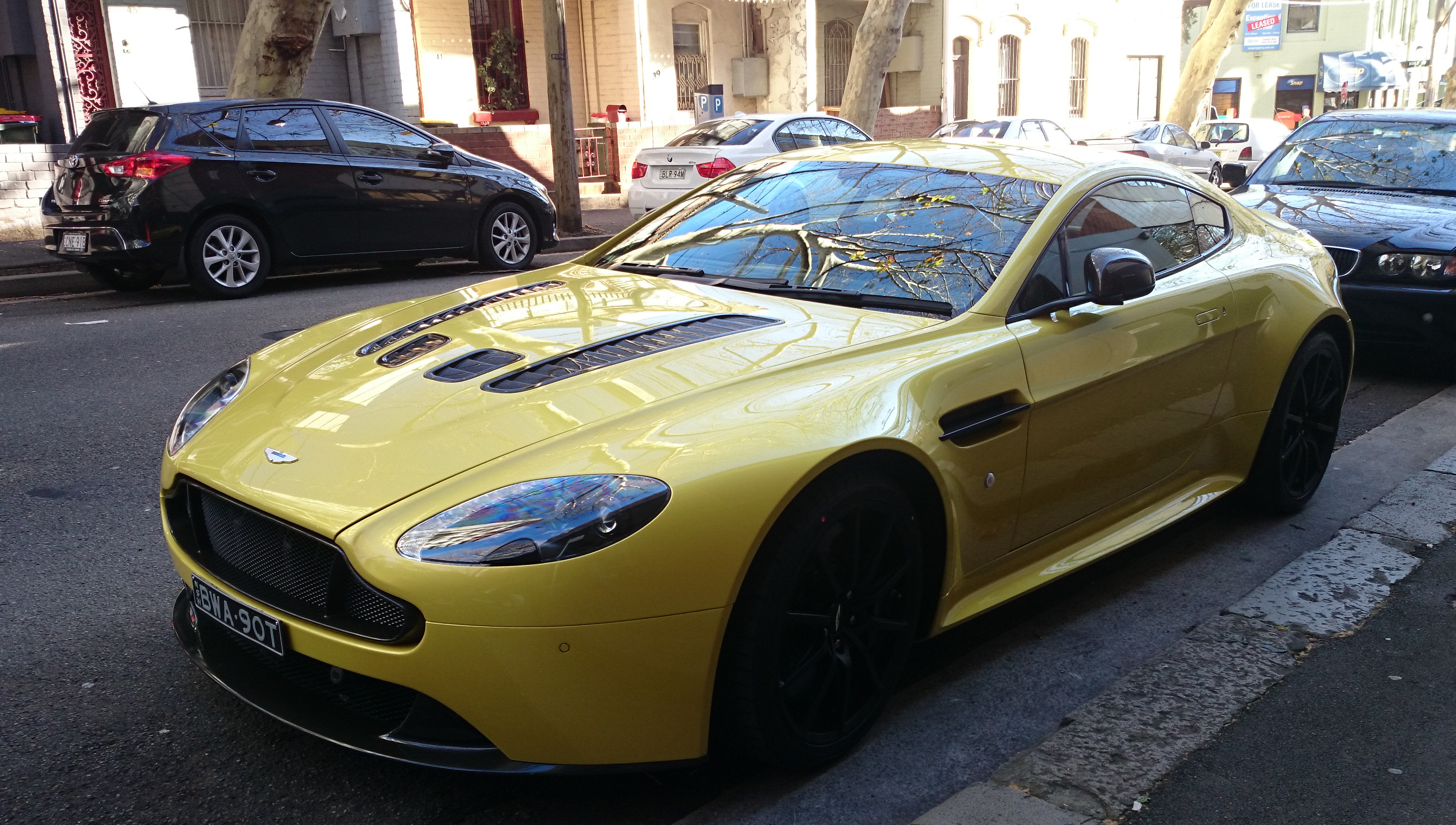 Aston Martin V12 Vantage S